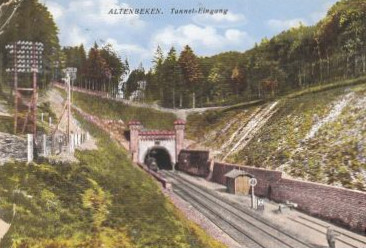 Rehbergtunnel trough the Egge in Altenbeken, NRW, Germany, 1928 (here: entrance at the west side)